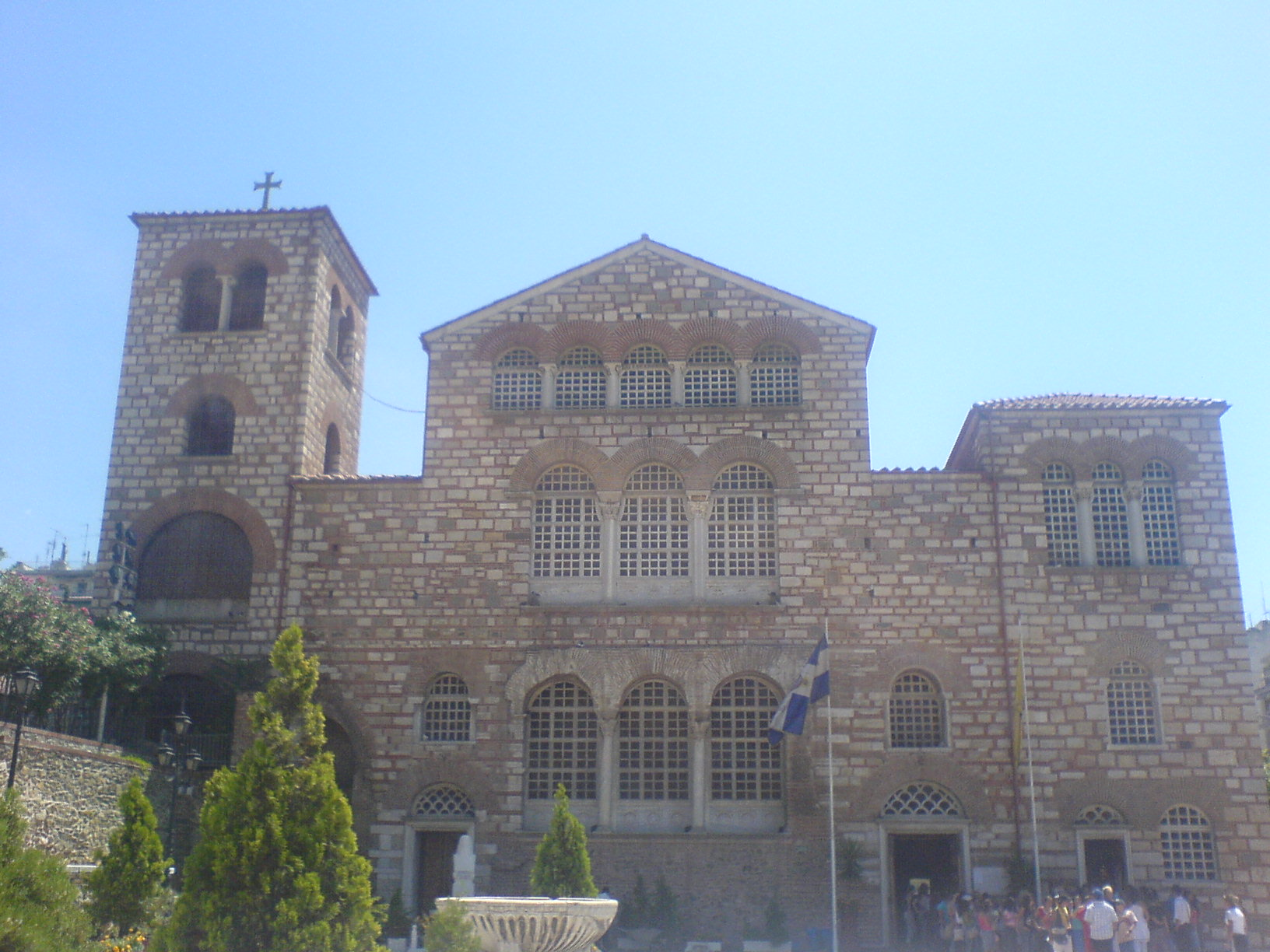 A picture of the Saint Demetrius Church in Thessaloniki